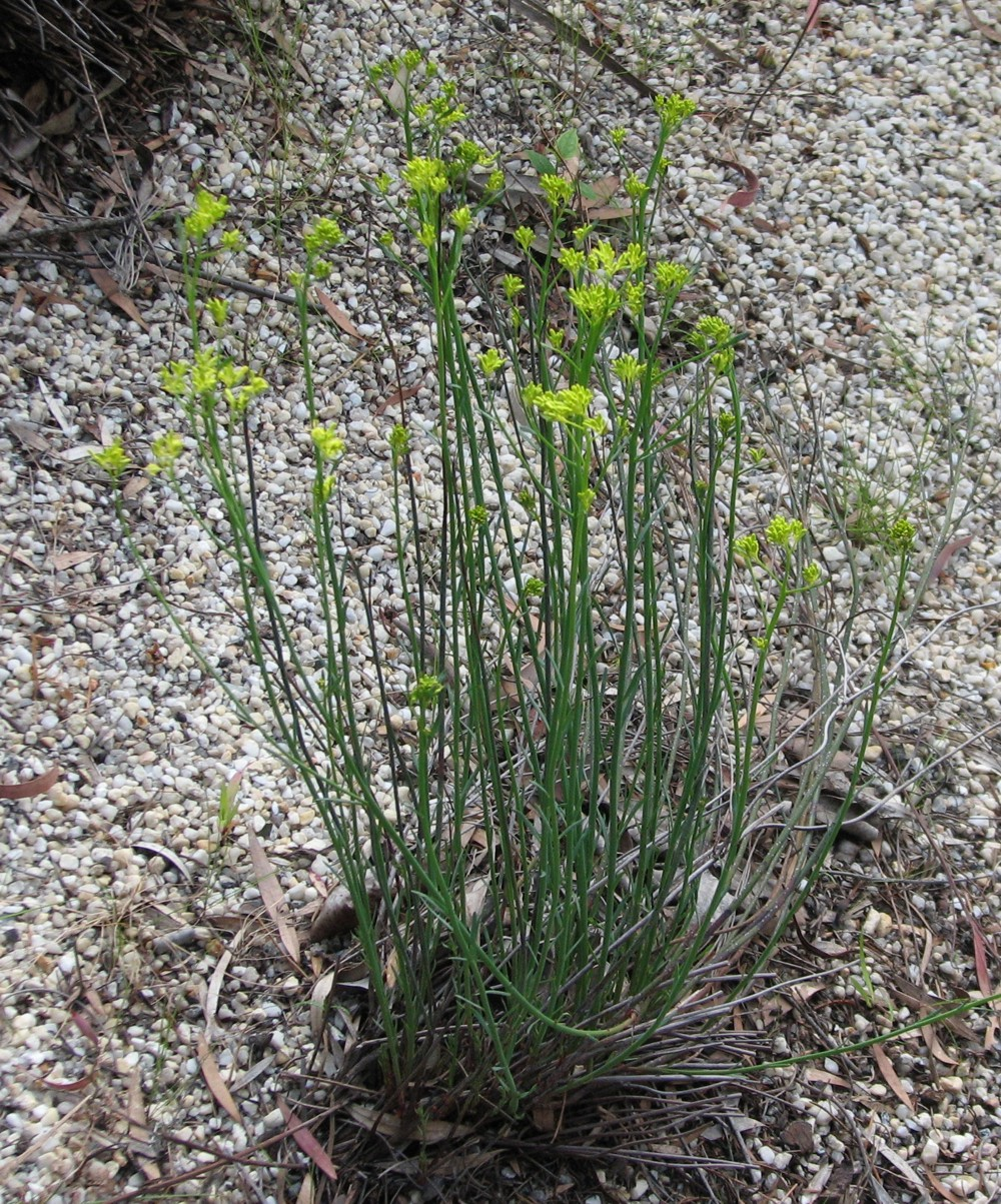 Glischrocaryon behrii (cultivated, labelled) Maranoa Gardens, Balwyn, Victoria, Australia